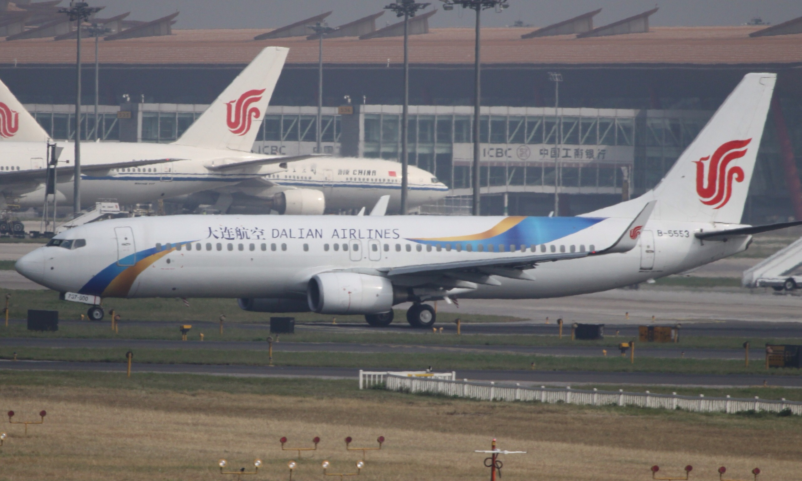 B-5553 Boeing B.738WL Dalian Airlines